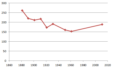 a graph containing census information on Barugh from 1881-2011